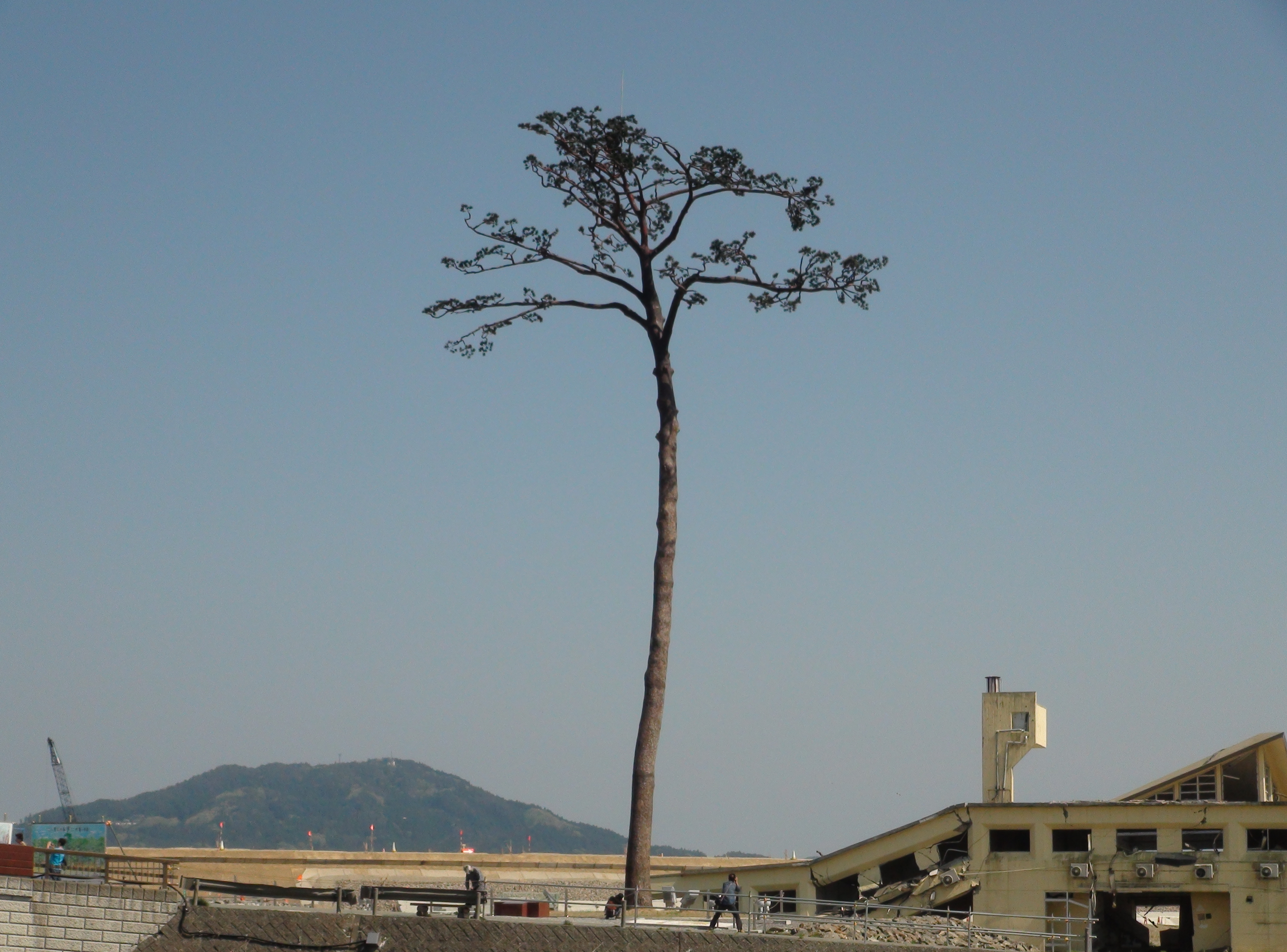 Miracle pine tree. April 2015.